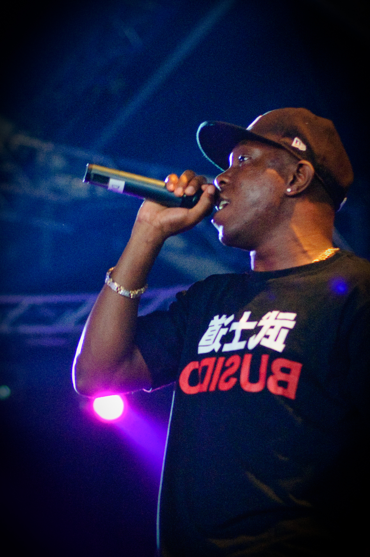 Rapper Dizzee Rascal performing at the 2009 Ilosaarirock festival in Joensuu, Finland.